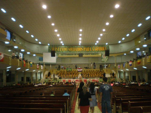 Templo_central_de_imperatriz